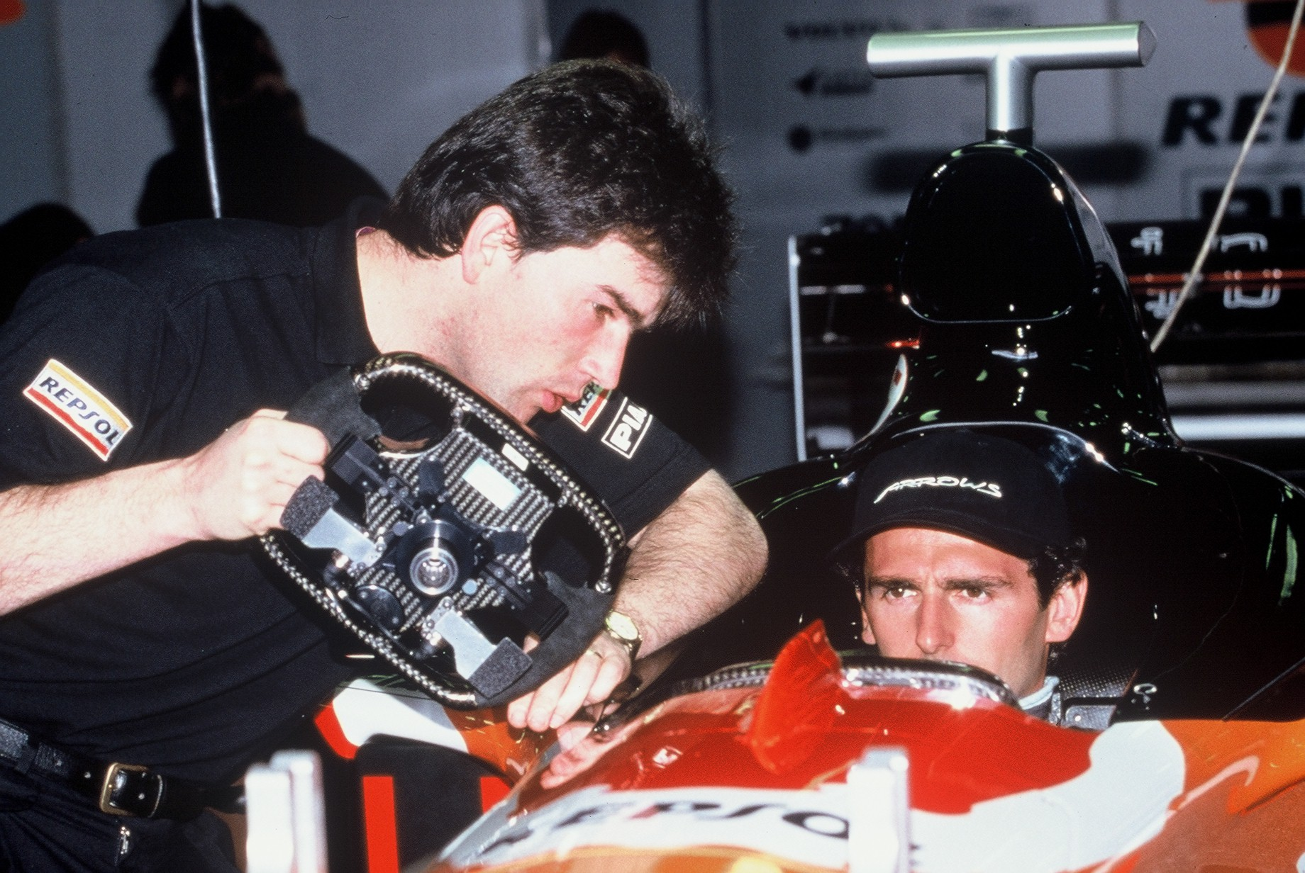 Repsol moves into Formula 1 with Pedro Martínez de la Rosa and Arrows, making a spectacular debut in Australia.